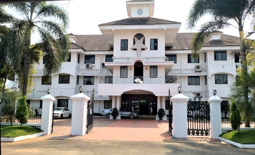 Patriarchal Centre Corrected with Picasa